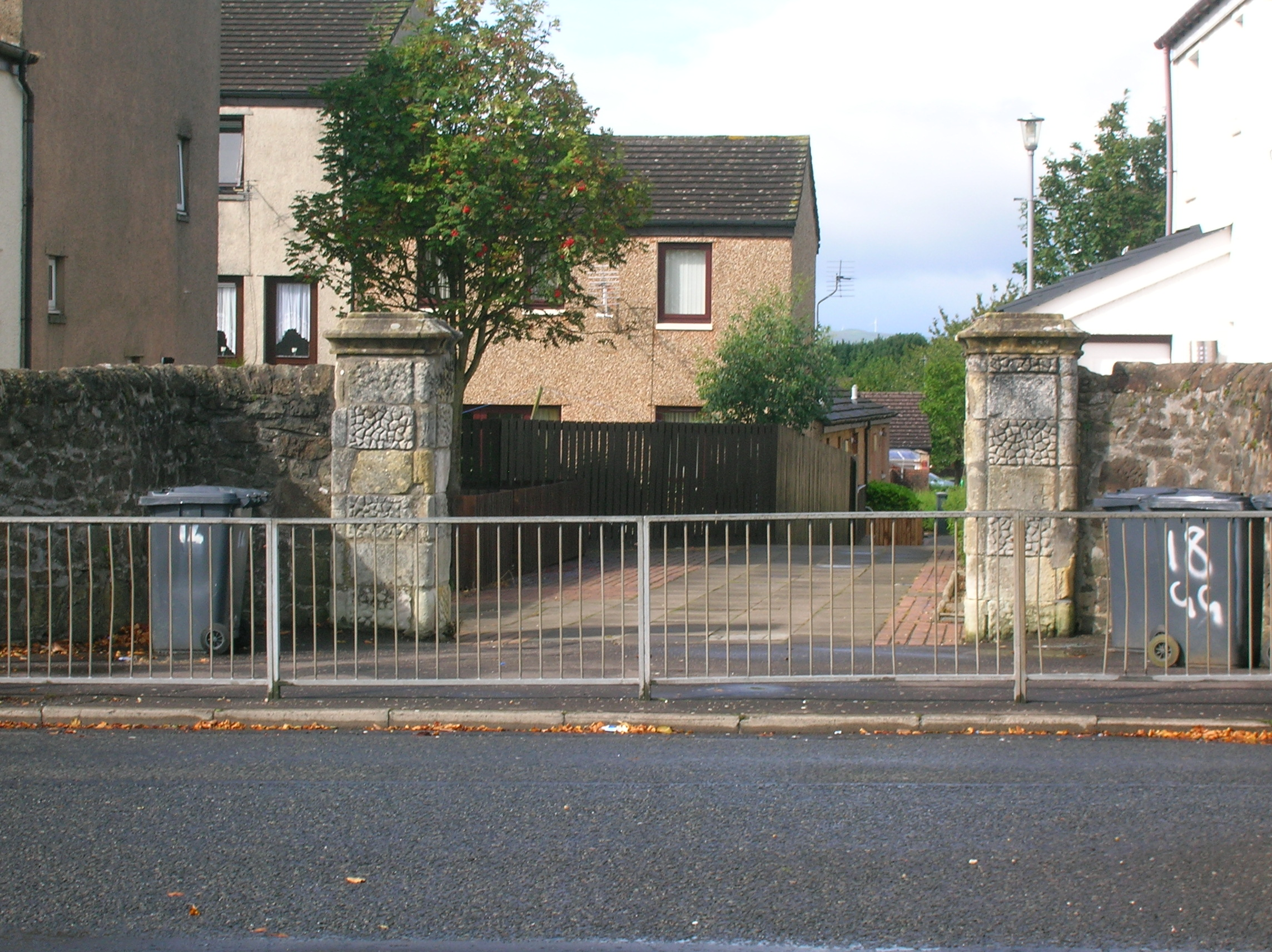 The Girdle Gate, Old Eglinton Castle estate, Girdletoll, Irvine, North Ayrshire, Scotland.